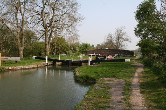 Lock No 64 and Bedwyn Church Bridge, Kennet and Avon Canal The bridge carries a footpath giving convenient access to the church and the south end of this pleasant village.